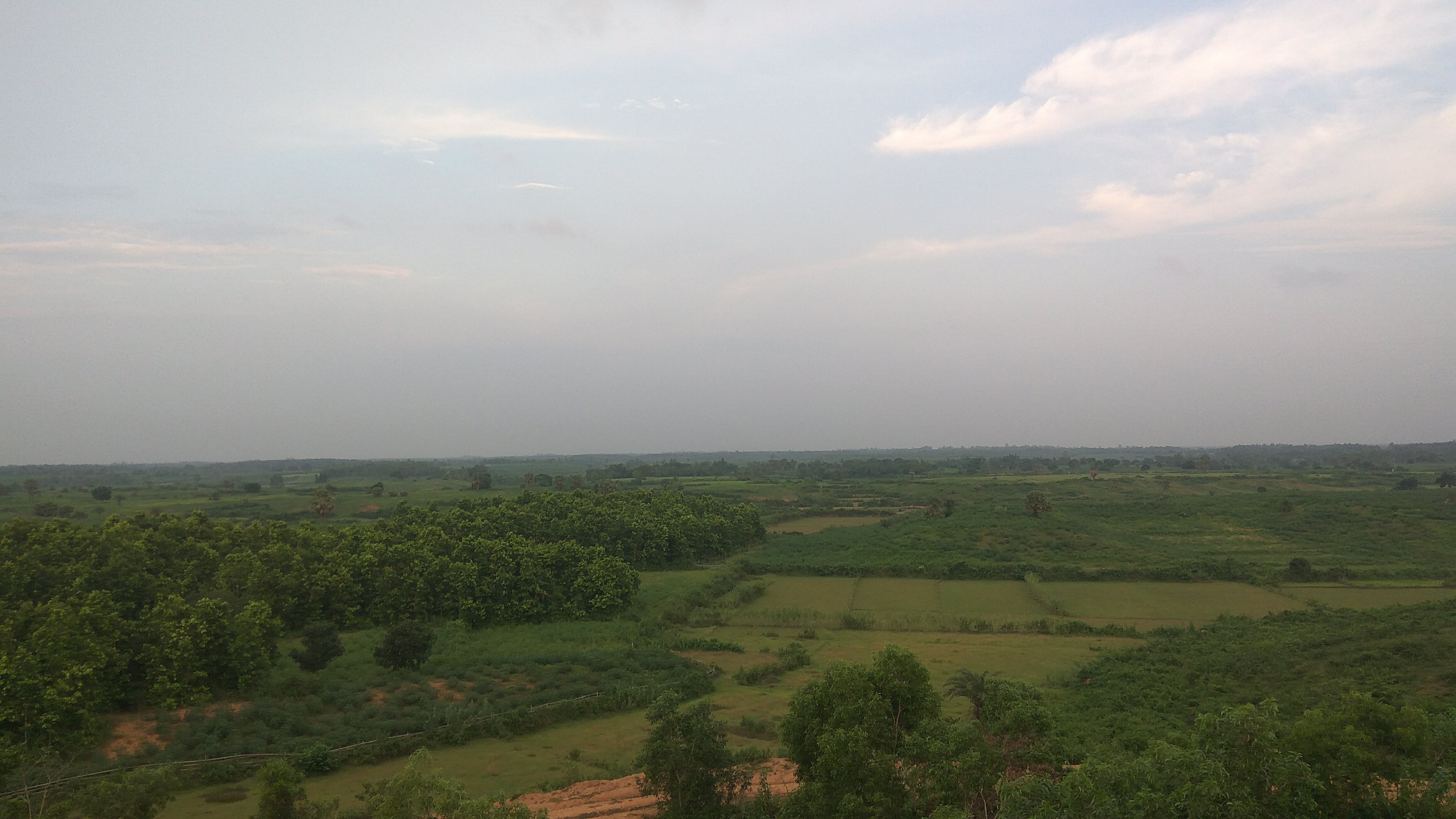 Jharka Field Firing Range, Shahid Salahuddin Cantonment, Ghatail.